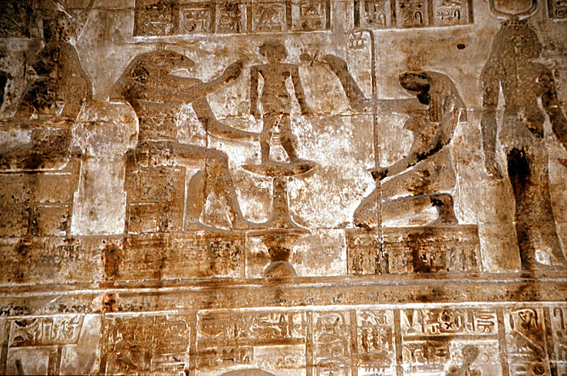 God Khnum moulds Ihy, goddess of Heqet, mamisi (birth temple), Dendera Temple complex, Dendara, Egypt